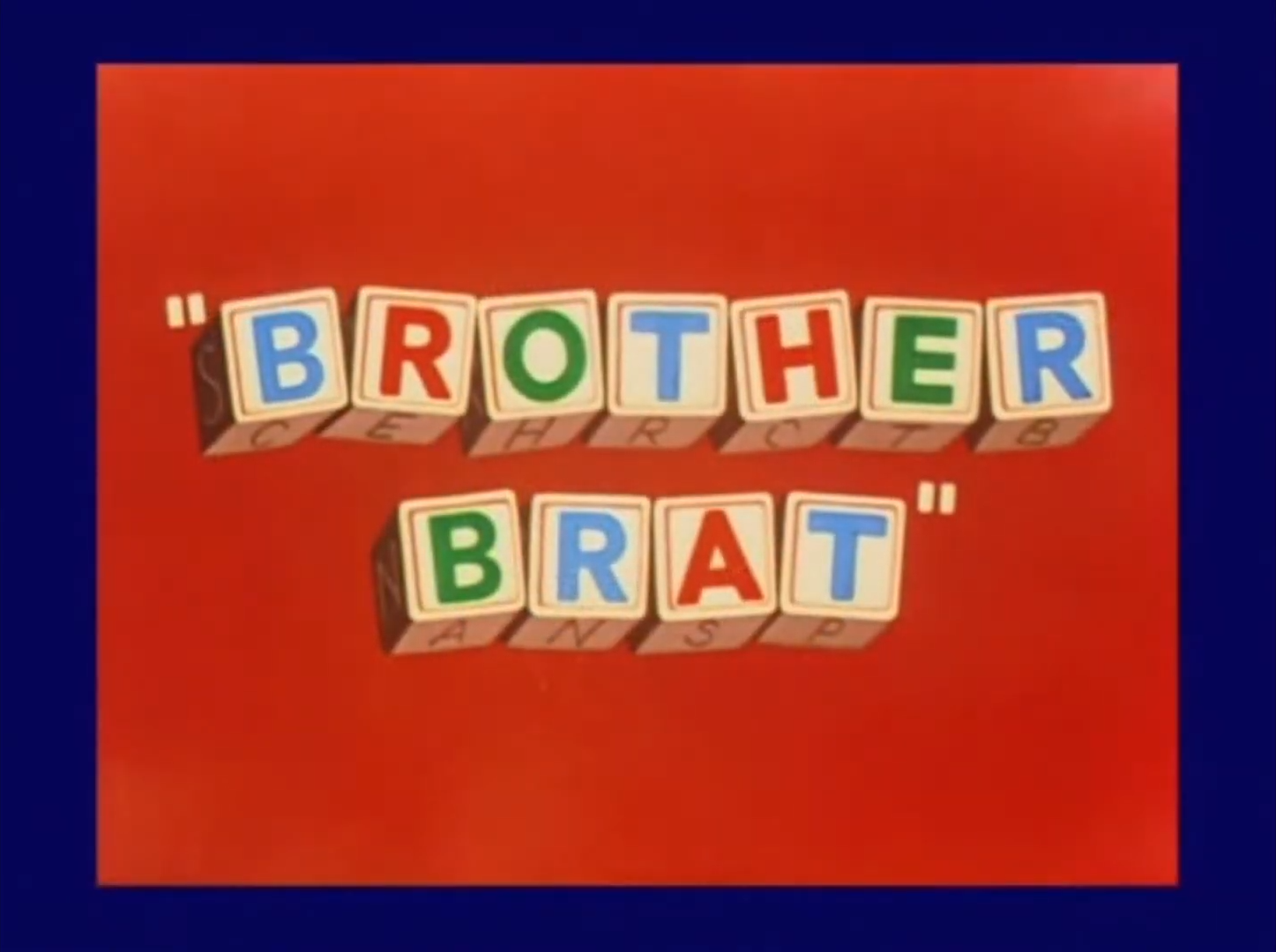 Title card for the obscure Porky Pig cartoon "Brother Brat."